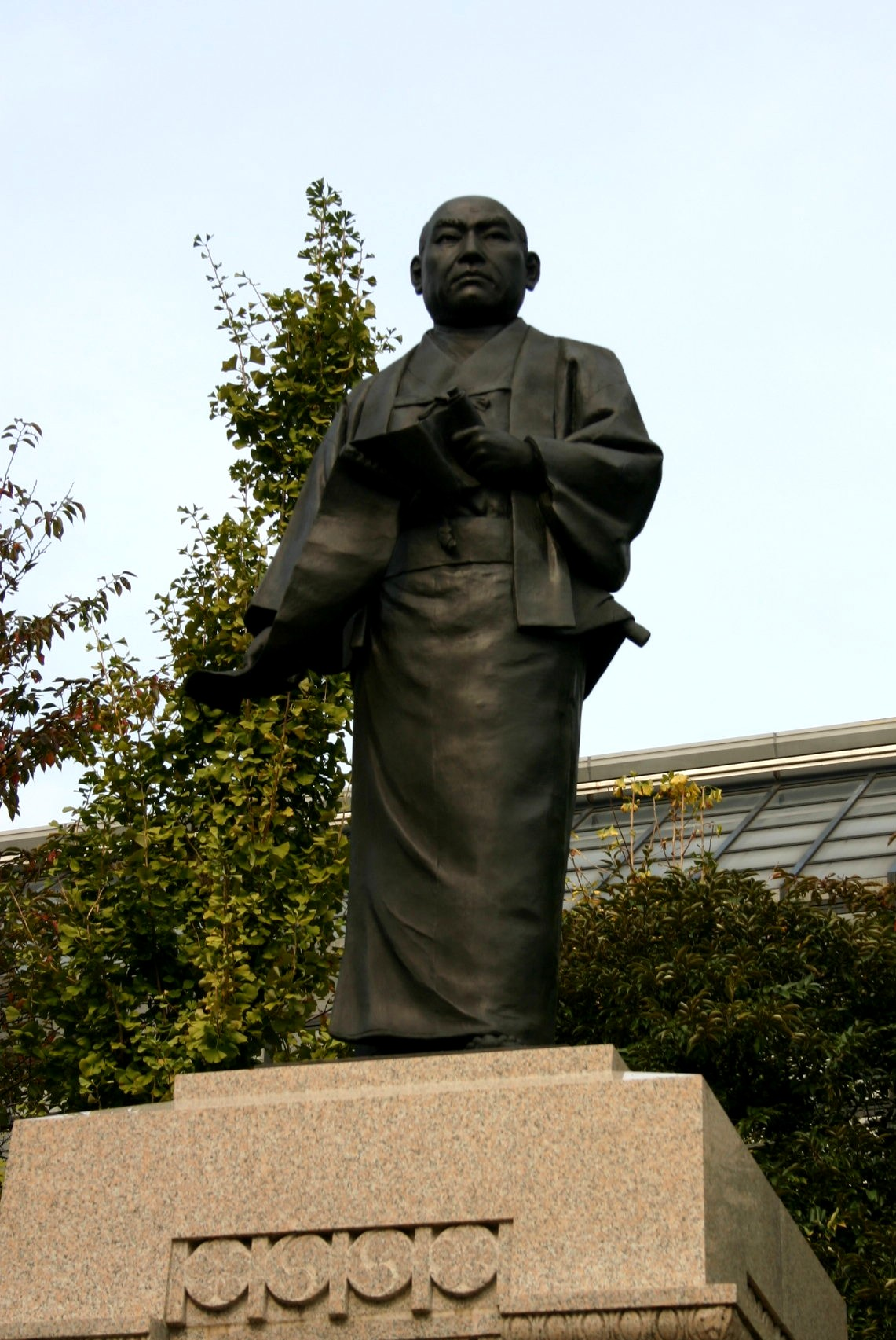 Statue of Oishi Kuranosuke Yoshio at Sengaku-ji temple in Minato-ku, Tokyo